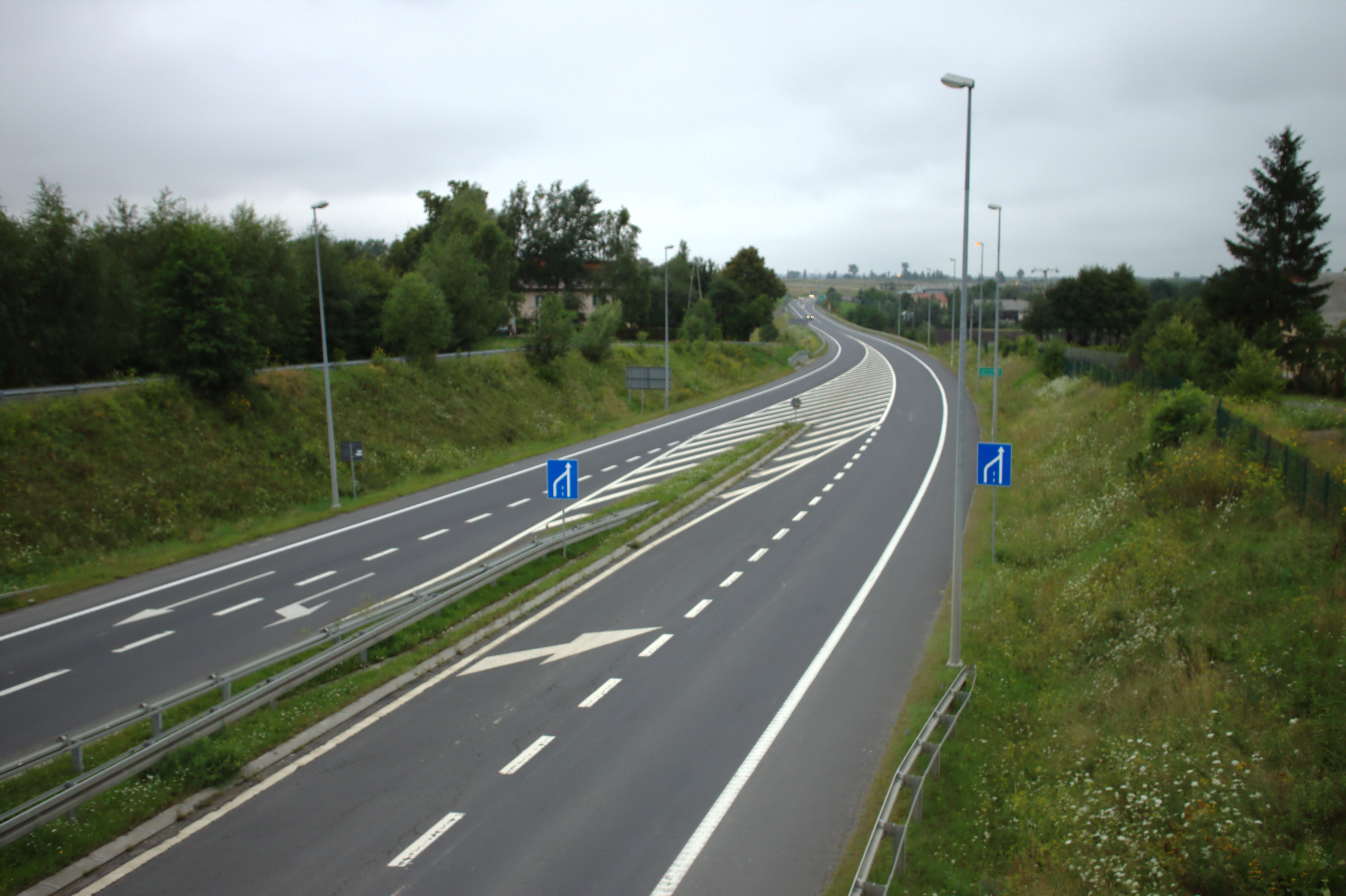 Radymno ring-road near the village of Skołoszów, Podkarpackie Voivodeship, Poland